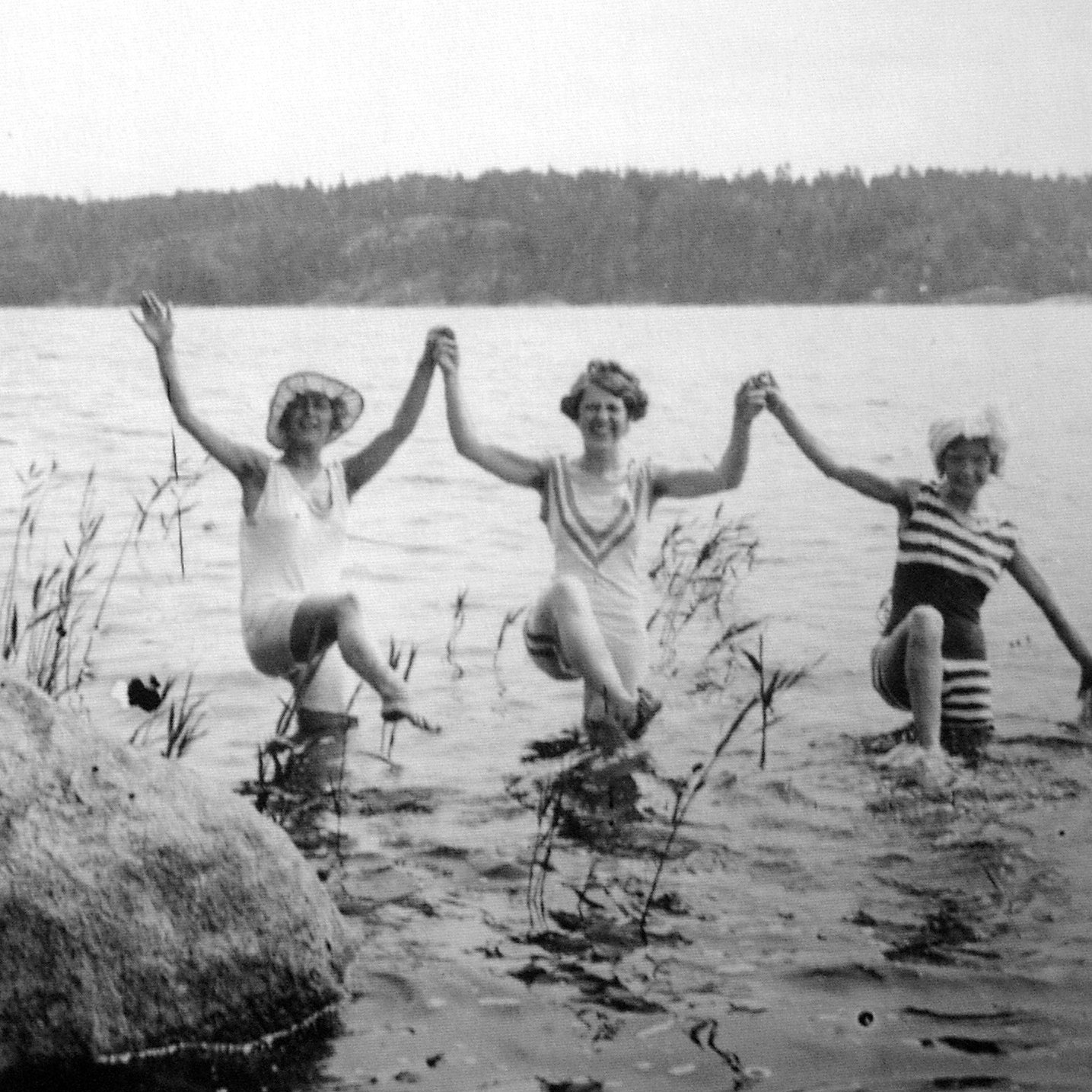 Picture of bathing women at Ljusterö (island), Stockholm archipelago.